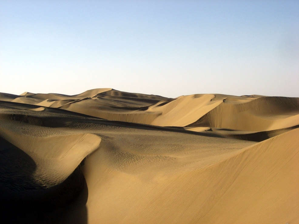 Taklamakan desert in Xinjiang Uyghur Autonomous Region.